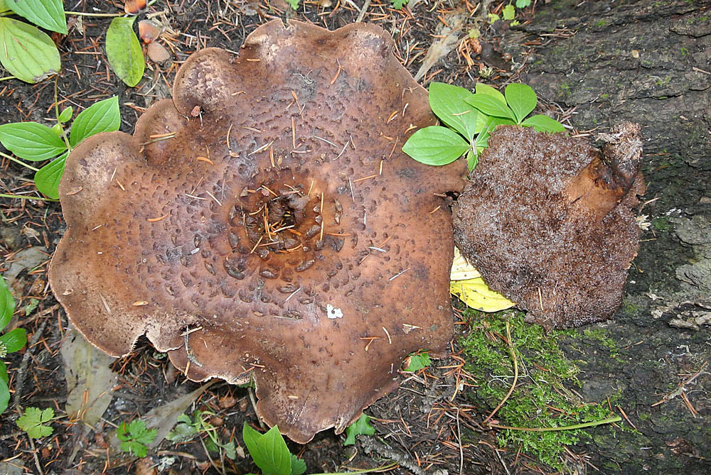 A large and widespread hedgehog (toothed polypore). It may prove medicinal. Photo from Rainy River, British Colombia